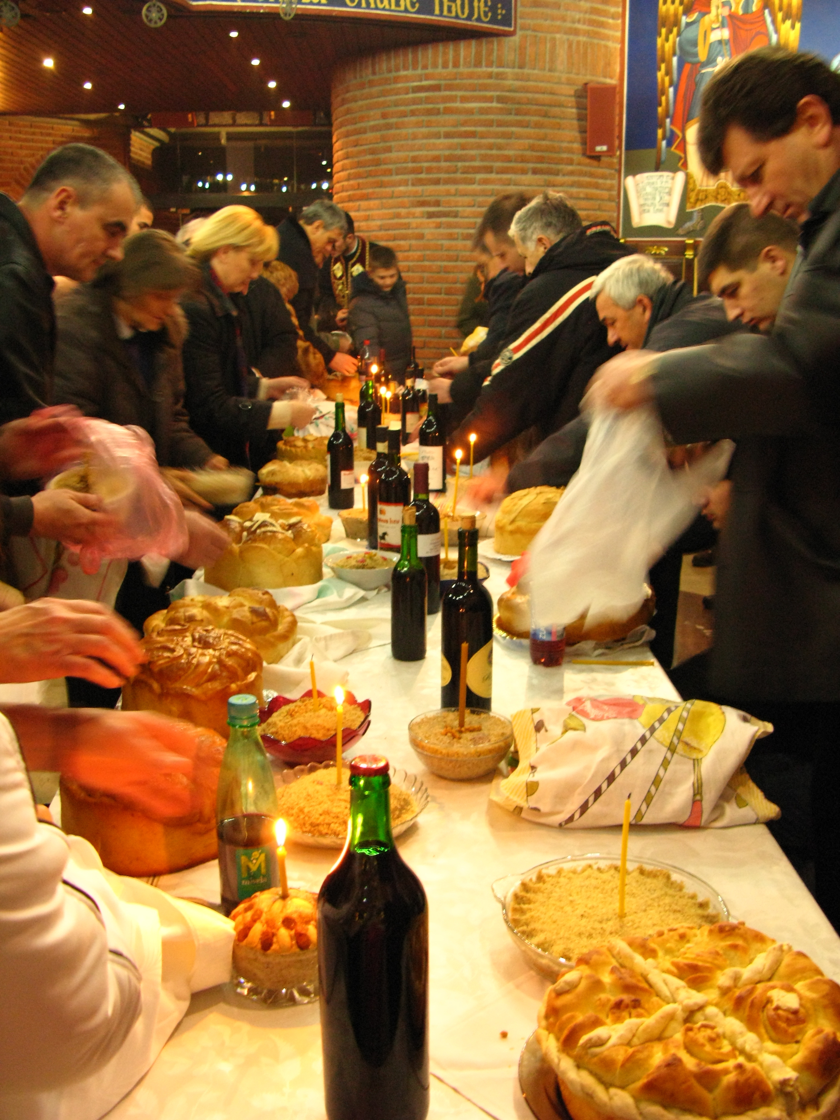 A celebration of Slavic cakes, grain and wine a day before Slav. Church in New Belgrade.